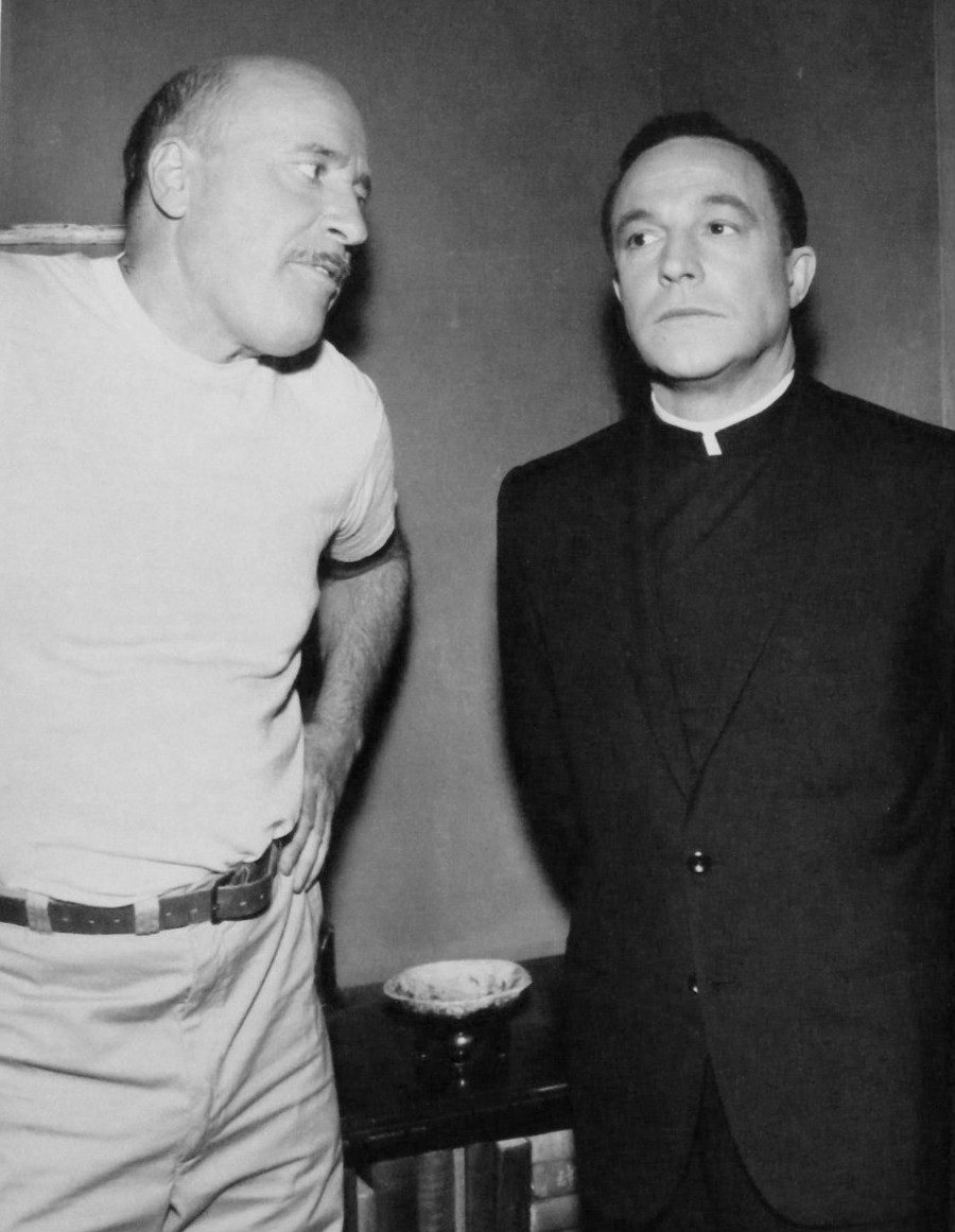 Photo of Fred Clark and Gene Kelly from the television program Going My Way. in this episode, "A Matter of Principle", Father O'Malley (Kelly) takes one of the St. Dominic's boys off the school basketball team.